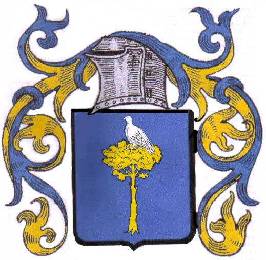 Coat of arms Rambaud de Montgardin